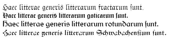 four kinds of blackletter in latin. Fraktur, Gothic, Rotunda and Schwabacher